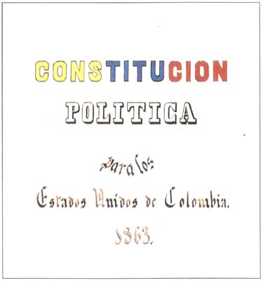 Cover of the Rionegro Constitution of 1863, the Political Constitution for the United States of Colombia, now Colombia.